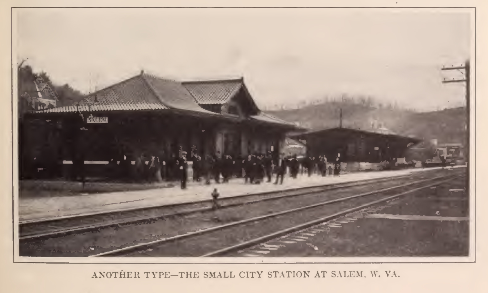 Photograph of Railroad Station in Salem, WV, that appeared in Baltimore & Ohio Employes Magazine, June 1914, Vol. 02 No. 09, Page 25